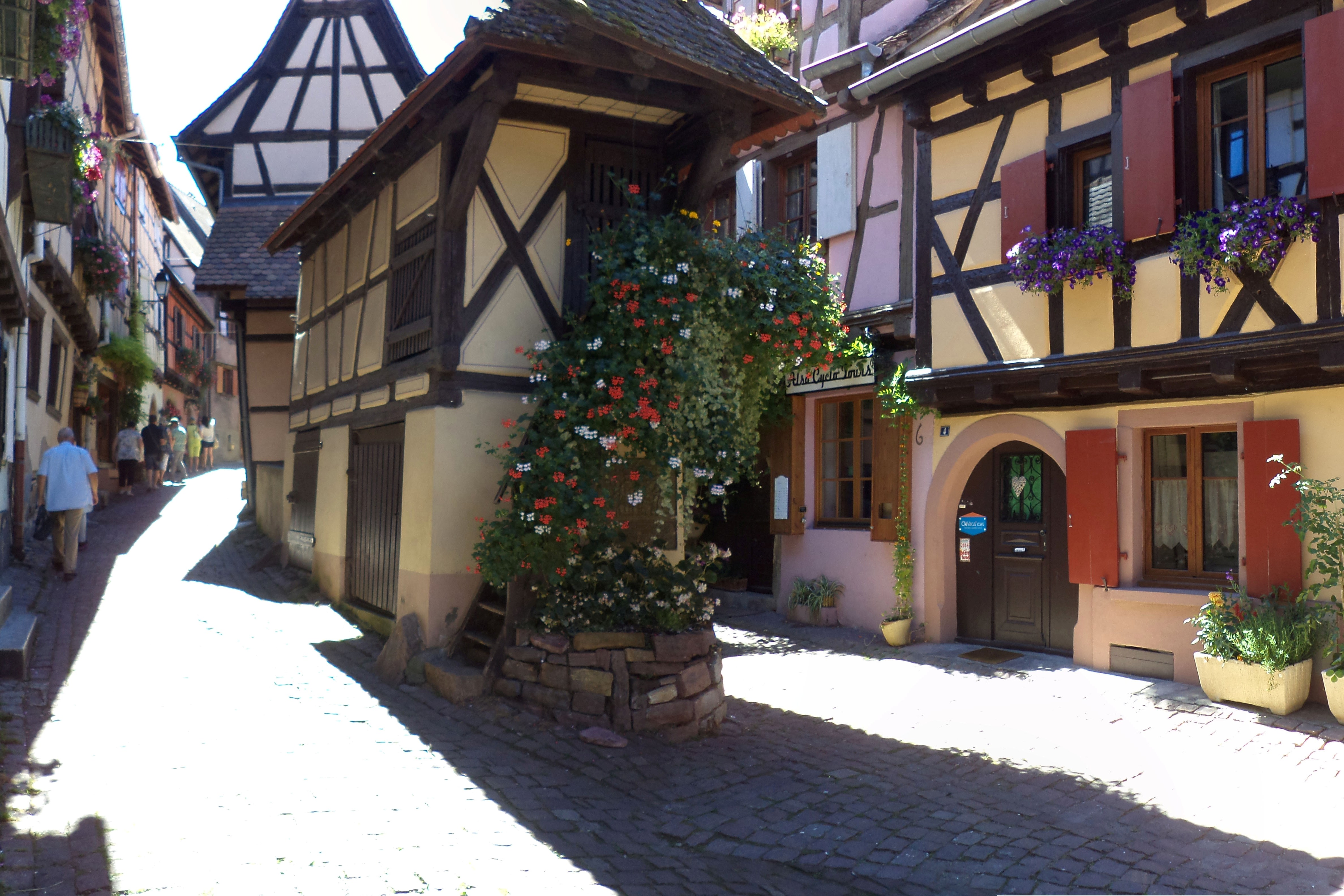 Typical houses in the centre of the village of Eguisheim